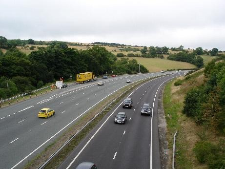 Rhuallt hill A55 - Traffic on Rhuallt hill on the A55 taken from the footbridge which crosses at Rhuallt